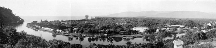 View over Padang towards the Bukit Barisan